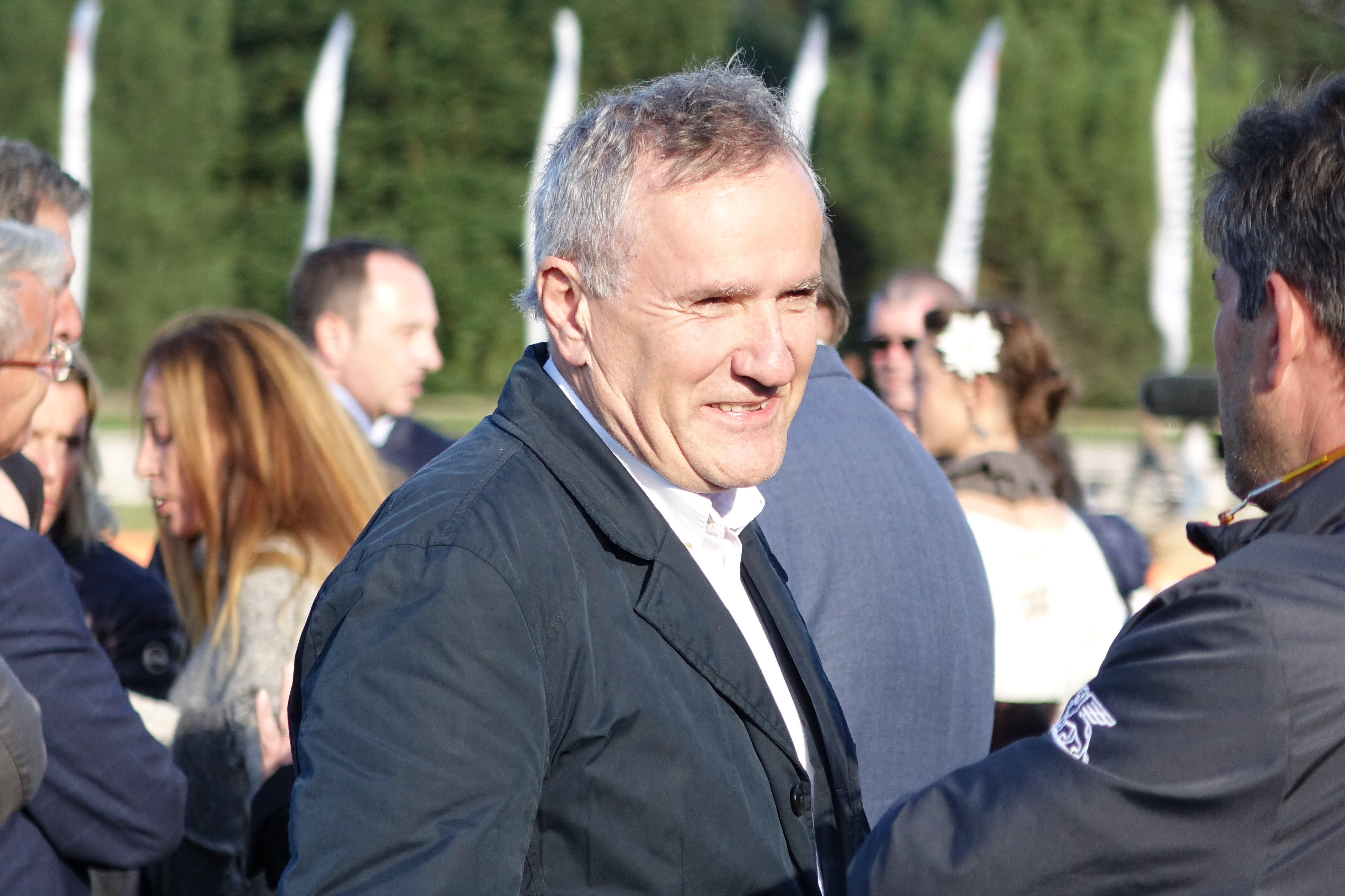 Serge Lecomte, president of the french equestrian federation, at the French Jumping Championship "Master Pro" 2015 at Fontainebleau, France